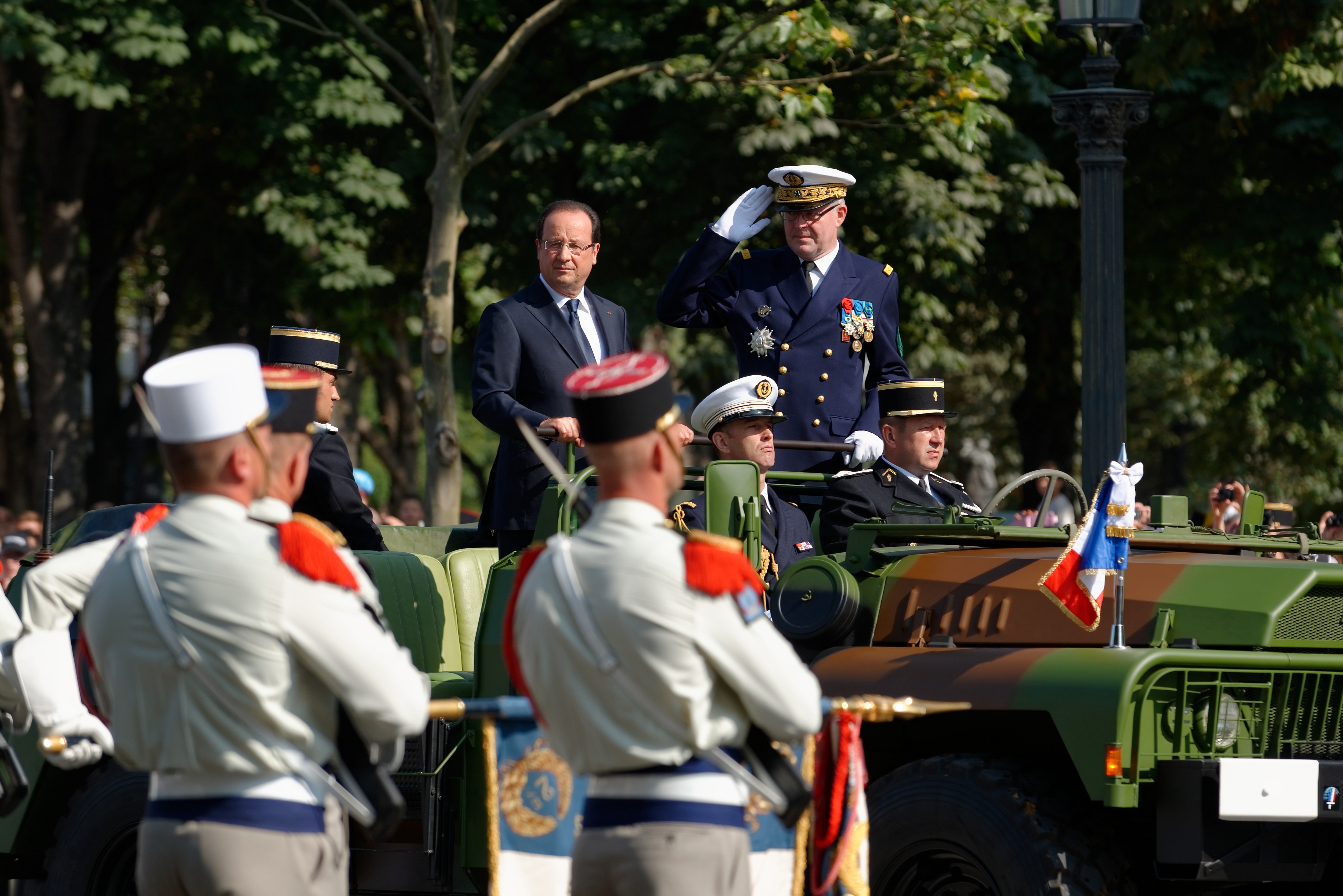 President François Hollande reviews troops with Admiral Édouard Guillaud, Chief of the Defence Staff, during the Bastille Day 2013 military parade on the Champs-Élysées in Paris.